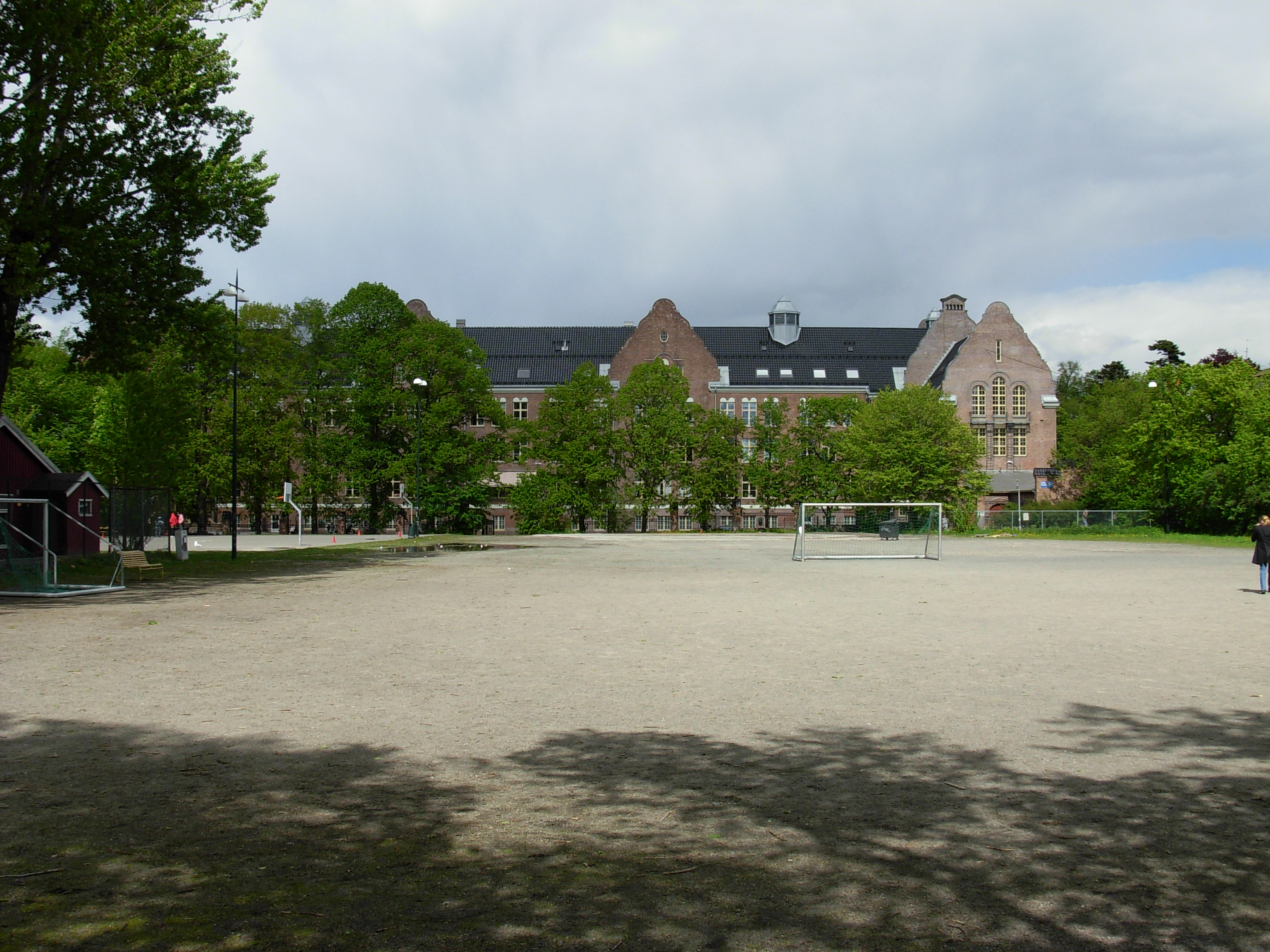 Sophus Bugges plass, Fagerborg, Oslo, seen towards Fagerborg secondary school